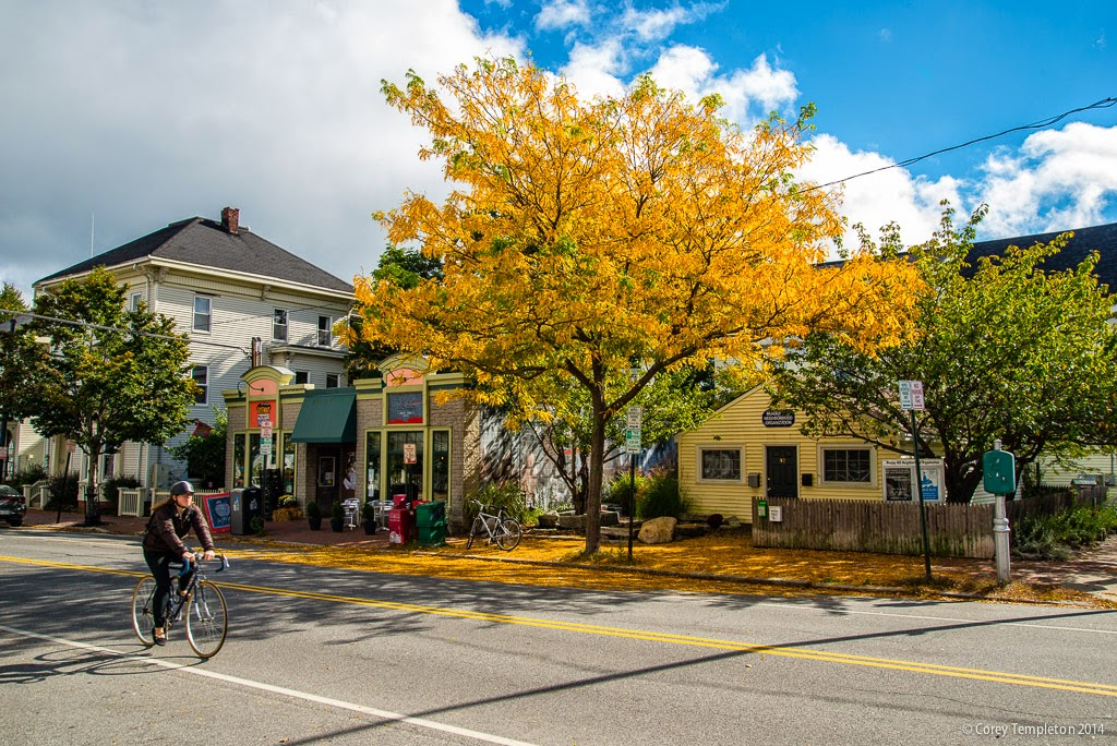 The Hill House in Autumn 2010, headquarters and meeting house of the Munjoy Hill Neighborhood Organization